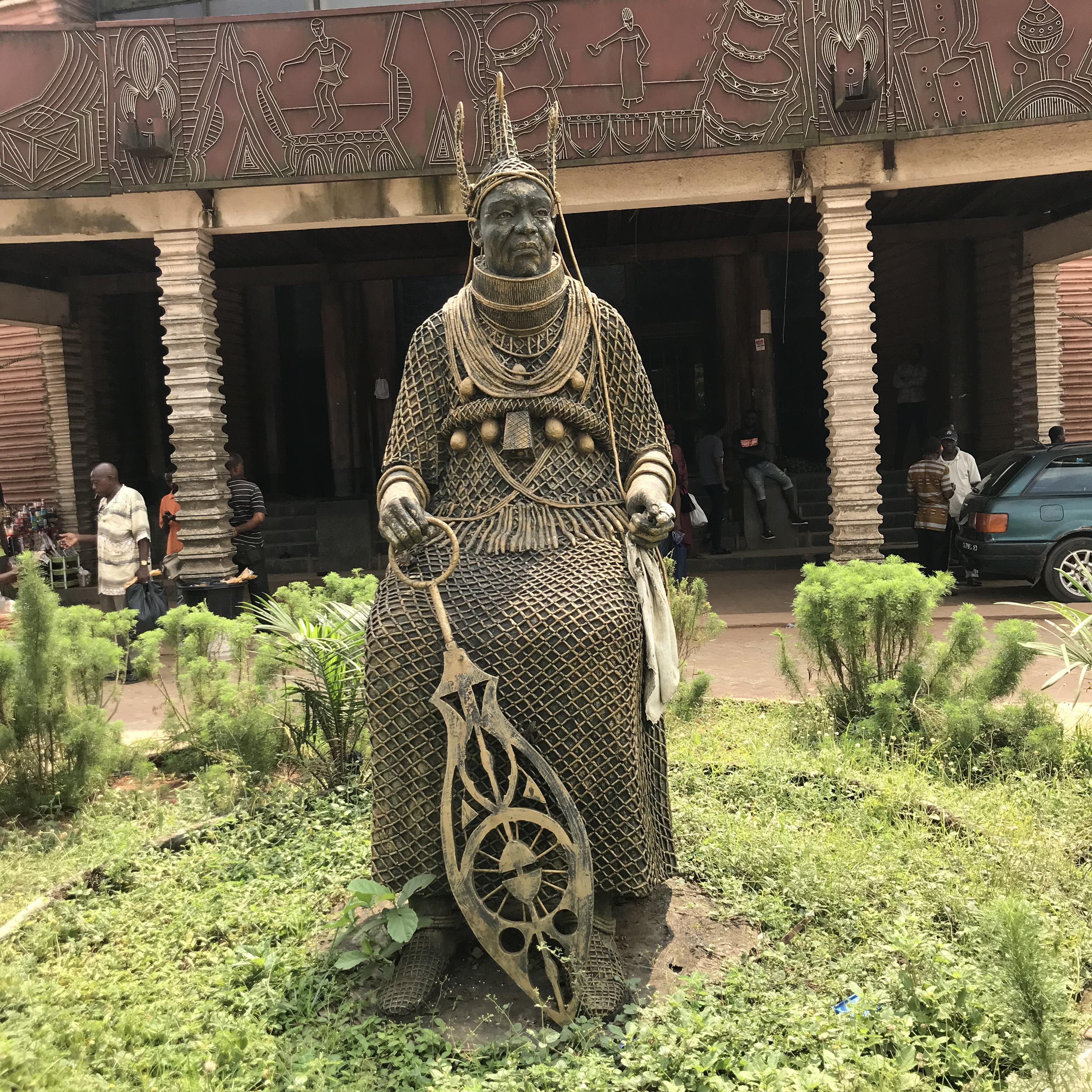 This statue resides opposite the Oba’s Palace in Benin, Efo State, Nigeria. It is a bronze statue. This is an image with the theme "Play" from: Nigeria